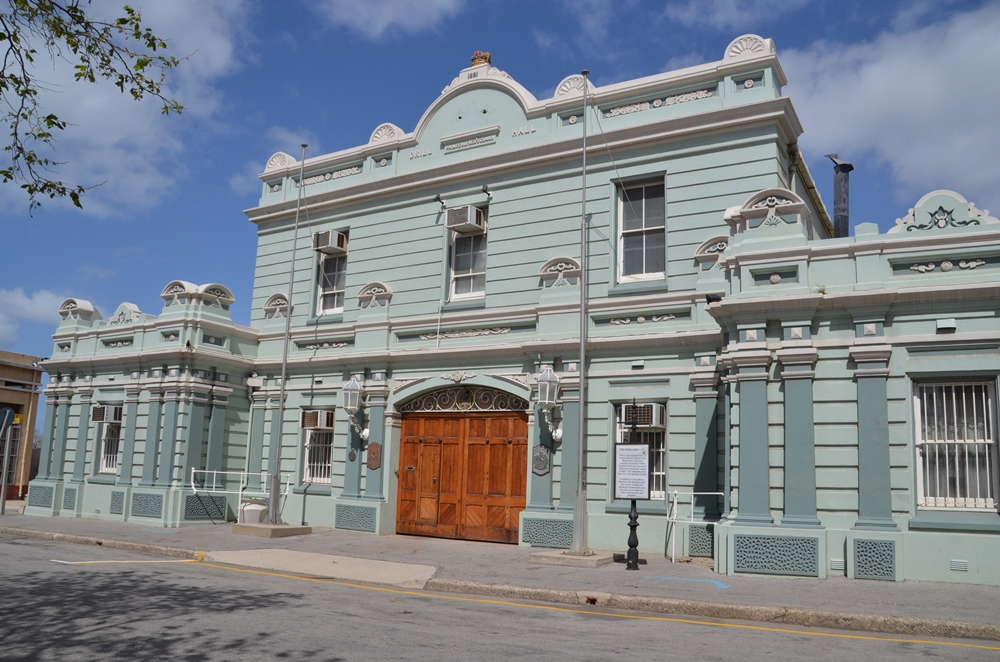 Prince Alfred's Guard Drill Hall, Prospect Hill, Port Elizabeth This media shows a South African Protected Site with SAHRA file reference 9/2/073/0046.